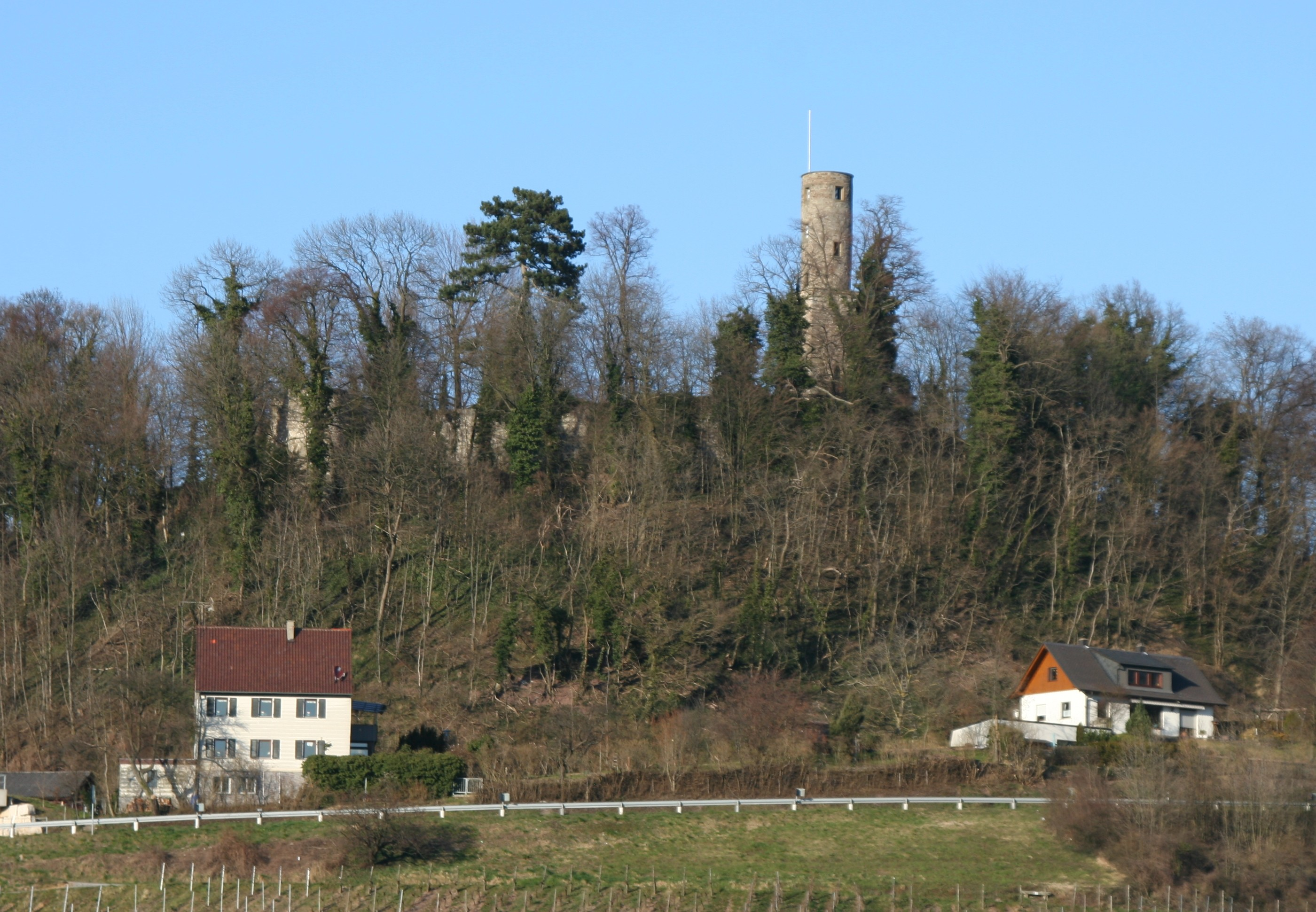 Löwenstein castle ruin as seen from the South